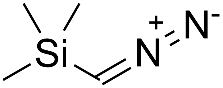 chemical structure of trimethylsilyldiazomethane